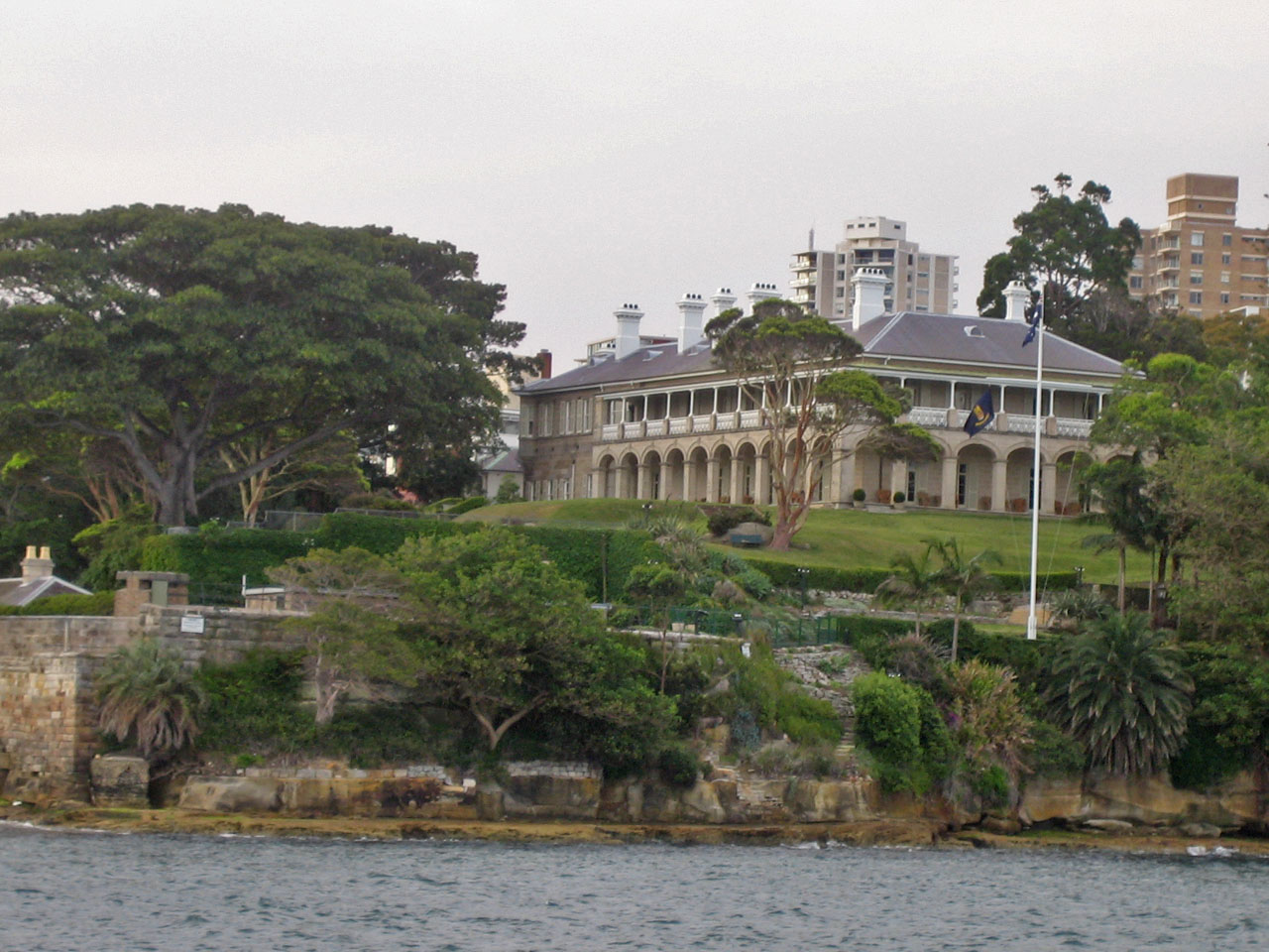 Admiralty House as seen from a Harbour Ferry